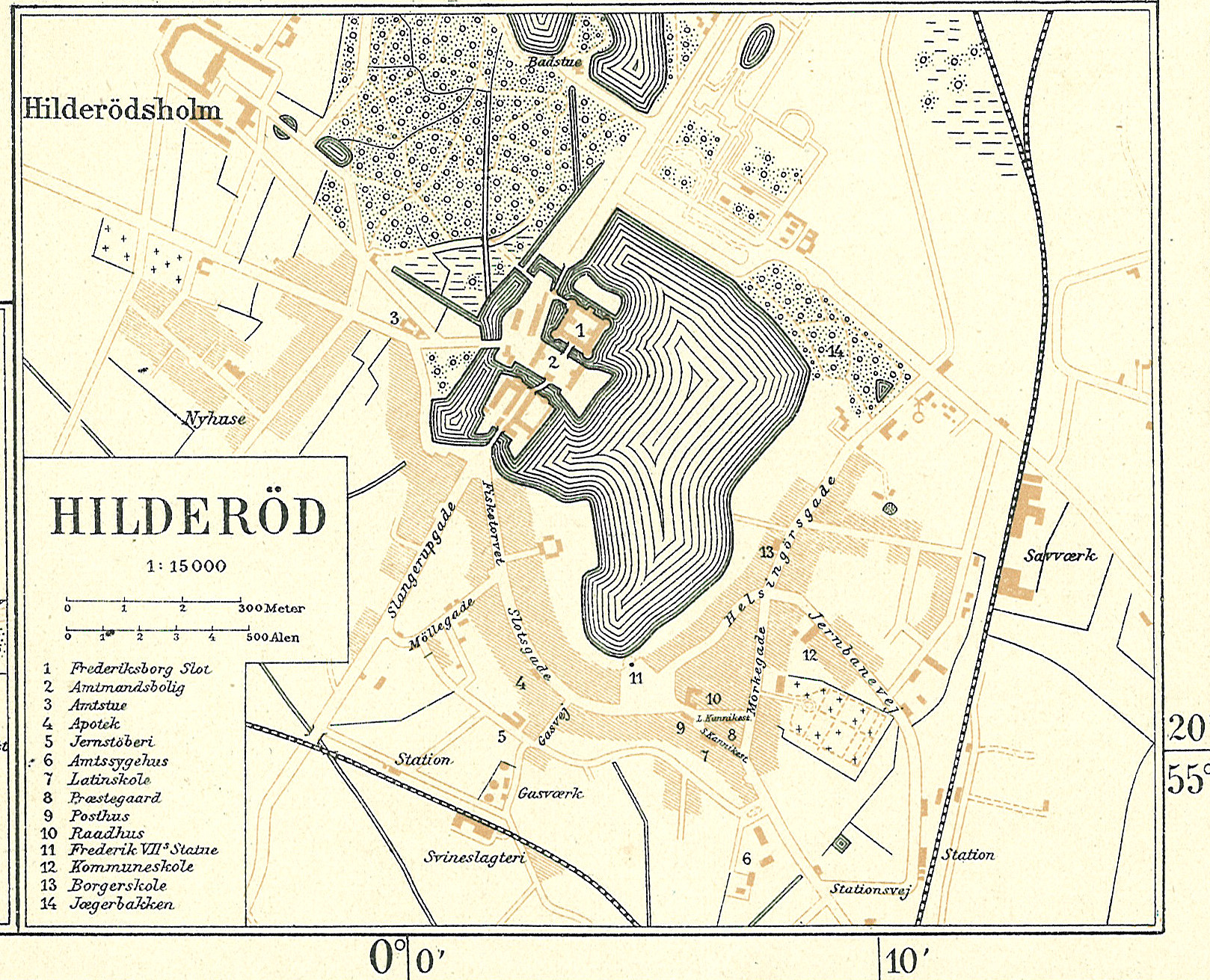 Map of Hillerød in Frederiksborg County in Denmark